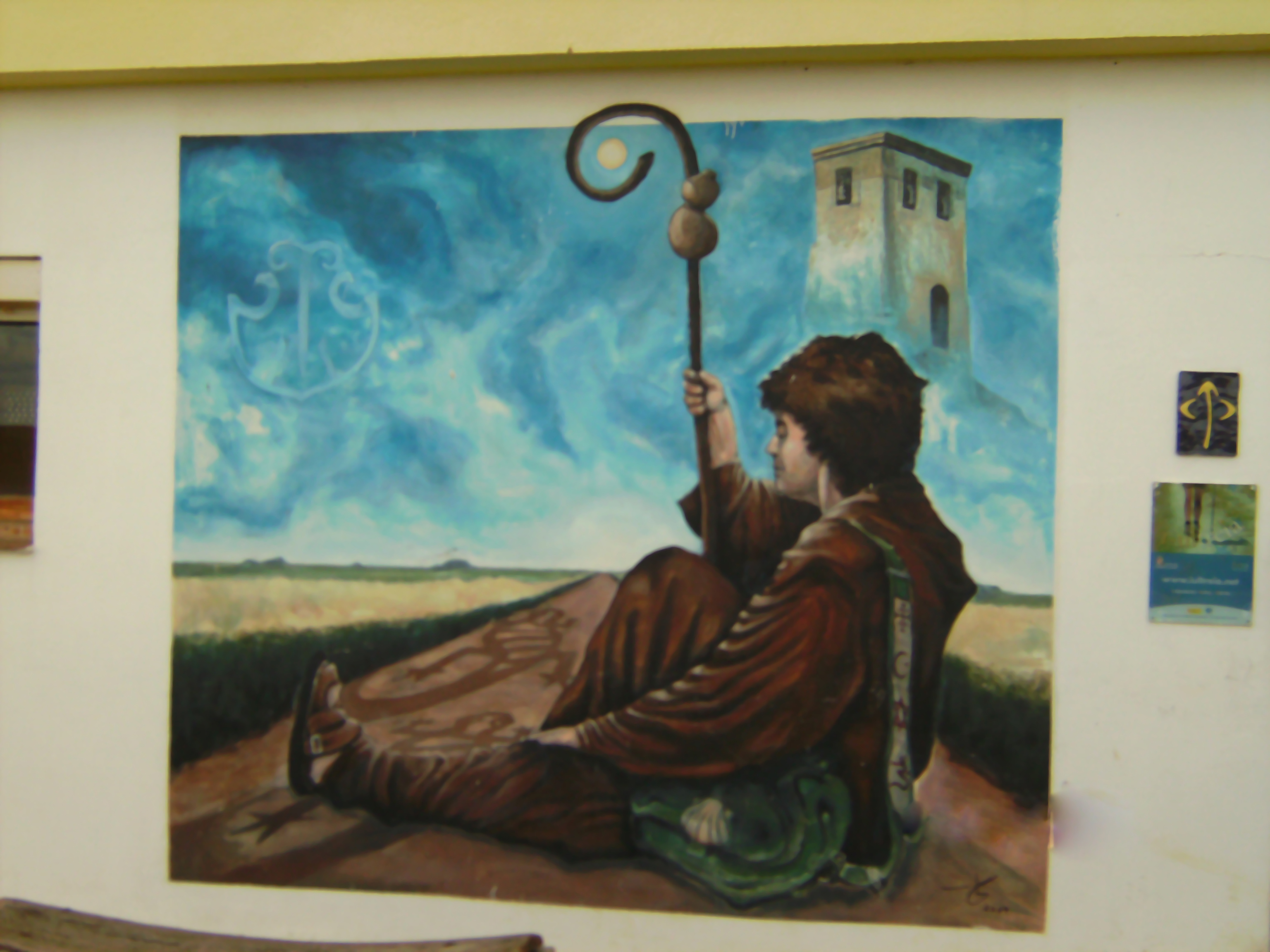 Painting at the Pilgrim hostel in Calzadilla de la Cueza